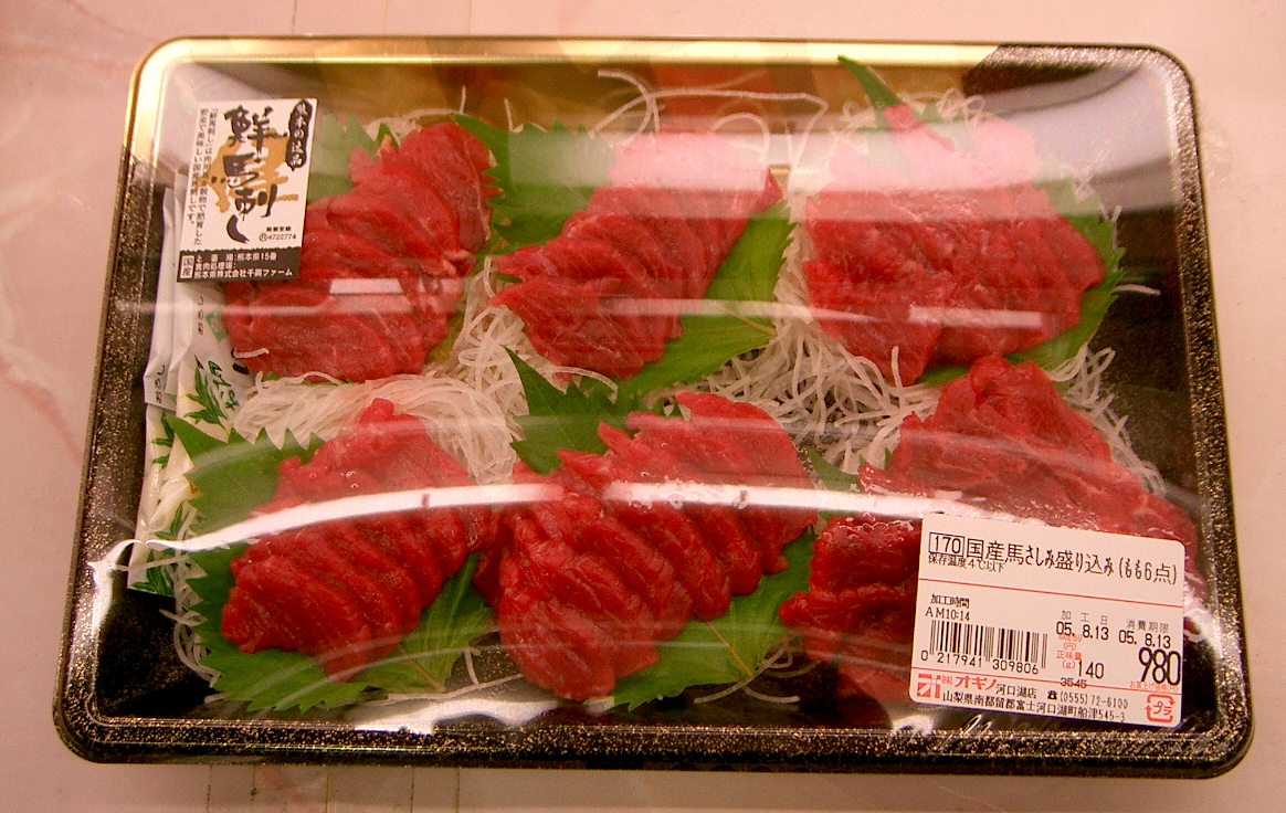 Sean Wilson 2005, Basahi Horse Meat